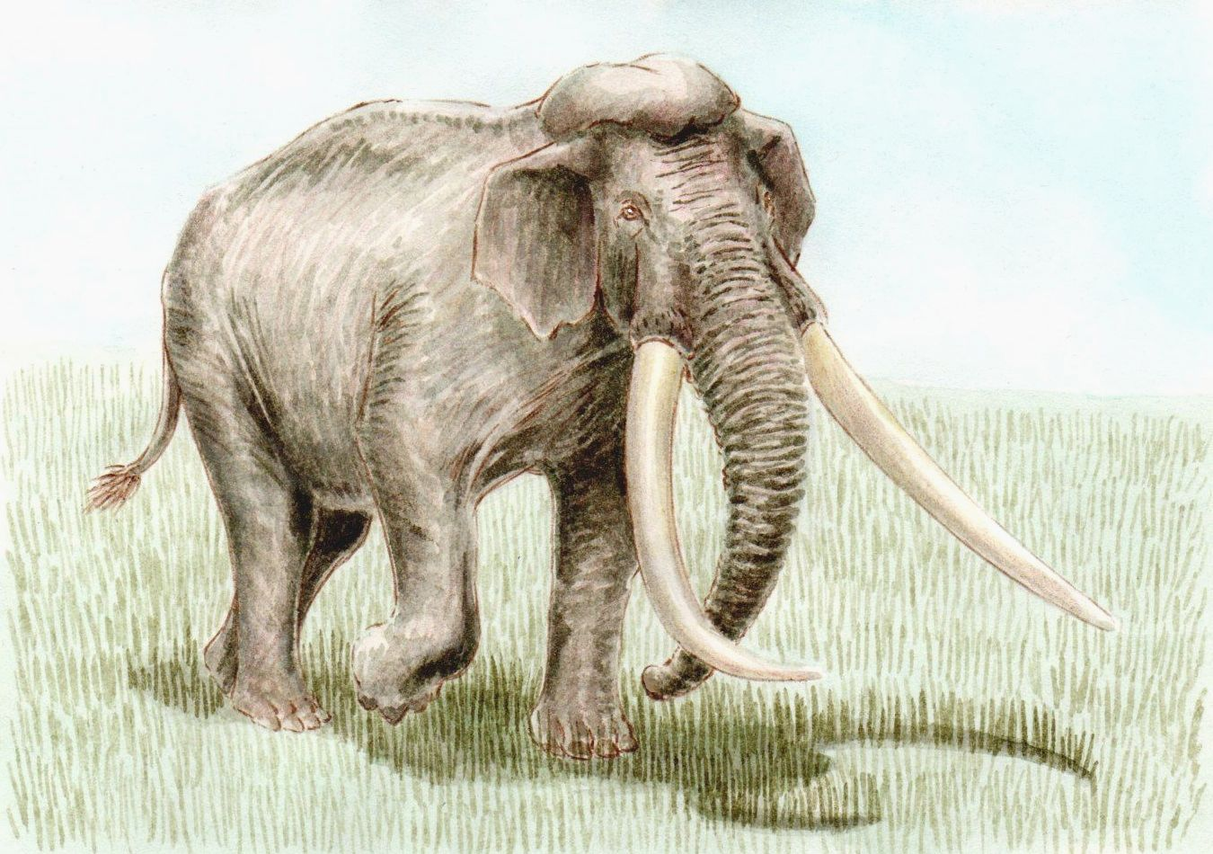 A recreation of the extinct mammal Palaeoloxodon namadicus